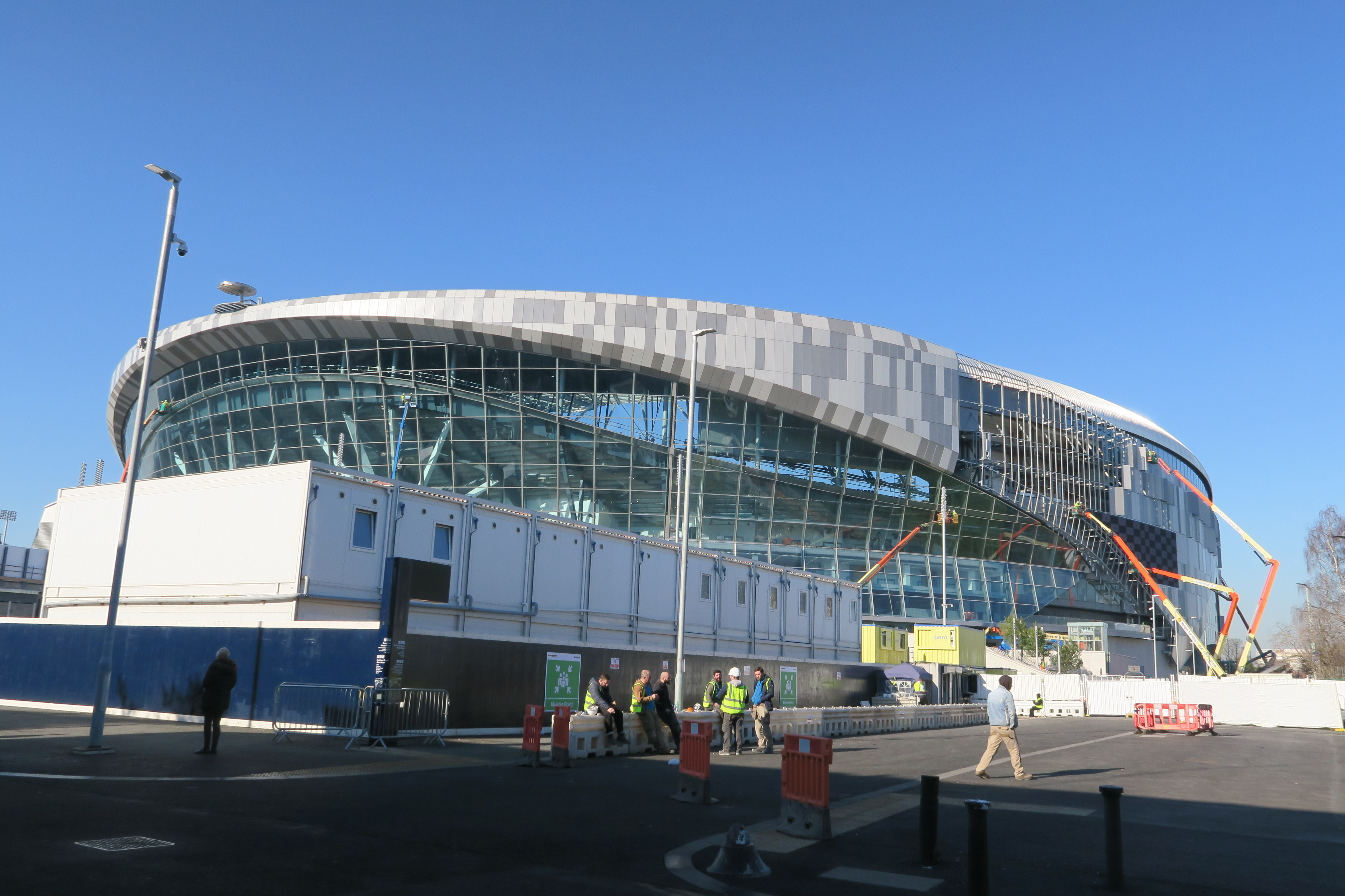 Tottenham Hotspur Stadium under construction February 2019 - last section of metal panel cladding being install, view from Park Lane